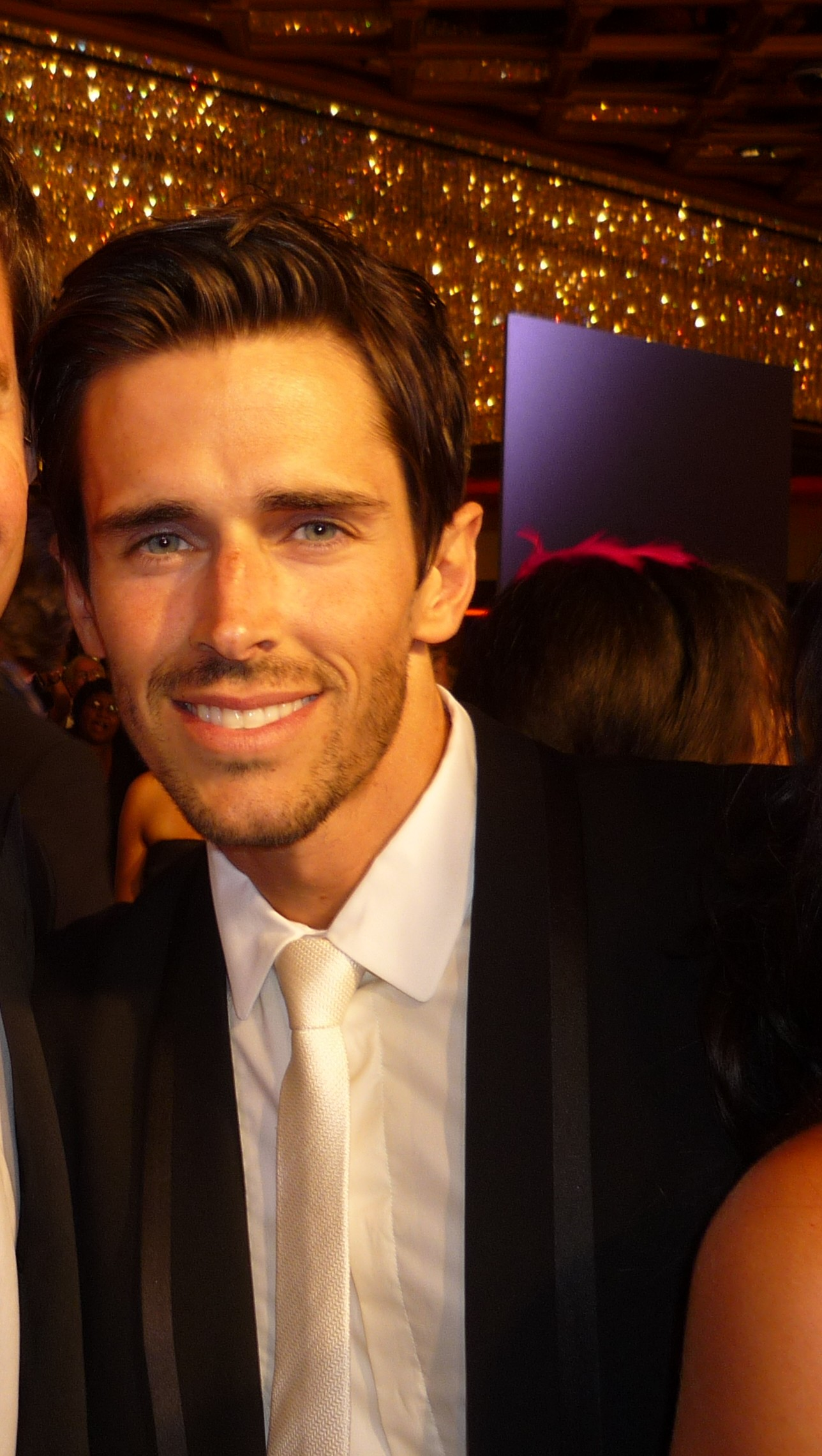 Actor Brandon Beemer at 2010 Daytime Emmy Awards.